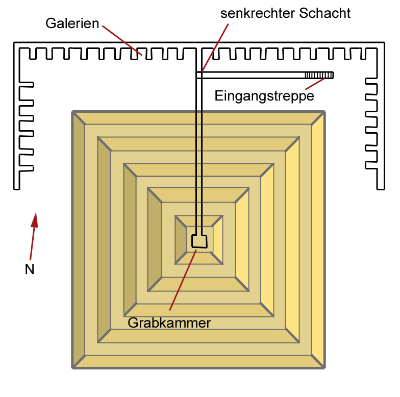 Substructure of the Layer Pyramid